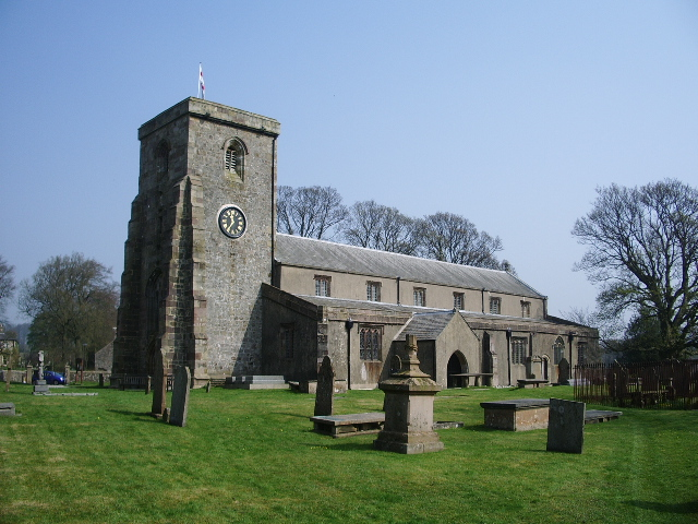 St Andrew's parish church, Slaidburn, Lancashire, seen from the southwest